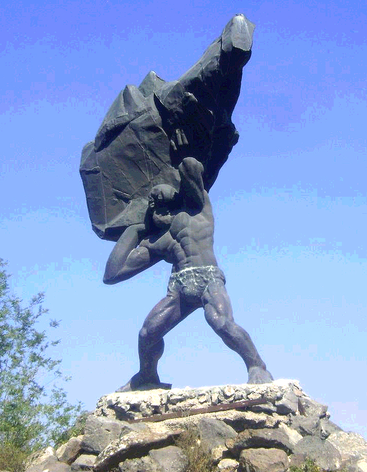 Torq Angegh, New Nork, Yerevan, Armenia